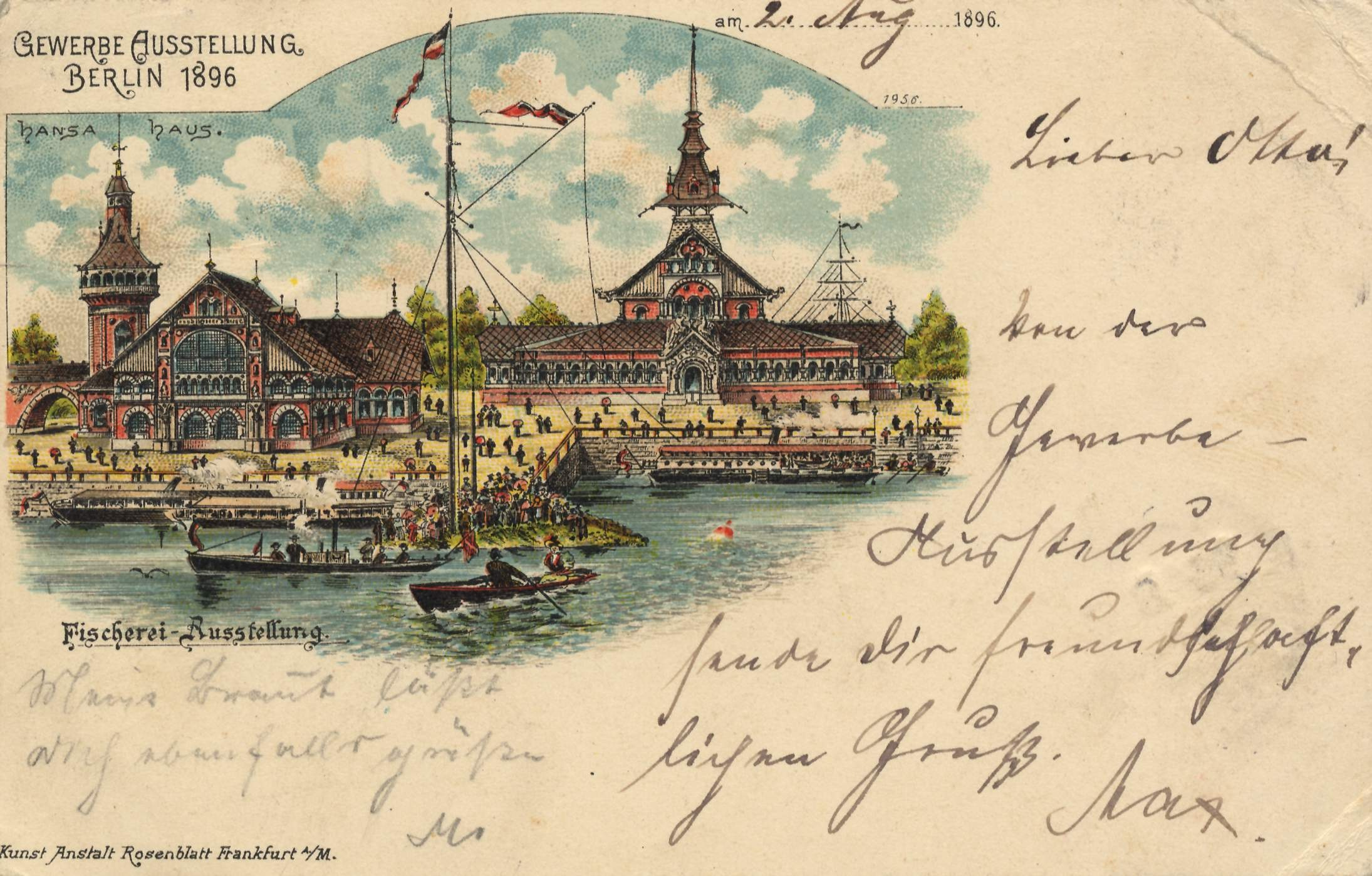 old picture postcard of Berlin industrial exhibition 1896 in Treptower Park - view of fishery exhibition with Hansa-Haus